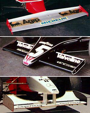 Three different styles of racing car front wings, by Rick Dikeman